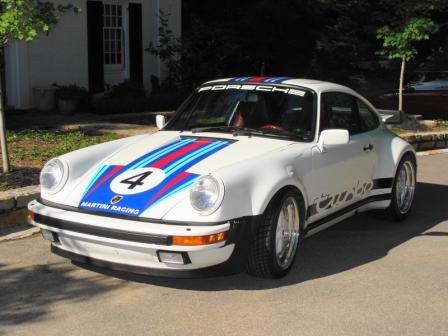 Dan Porter, Porsche 930 with Magnagrafik Martini stickers.